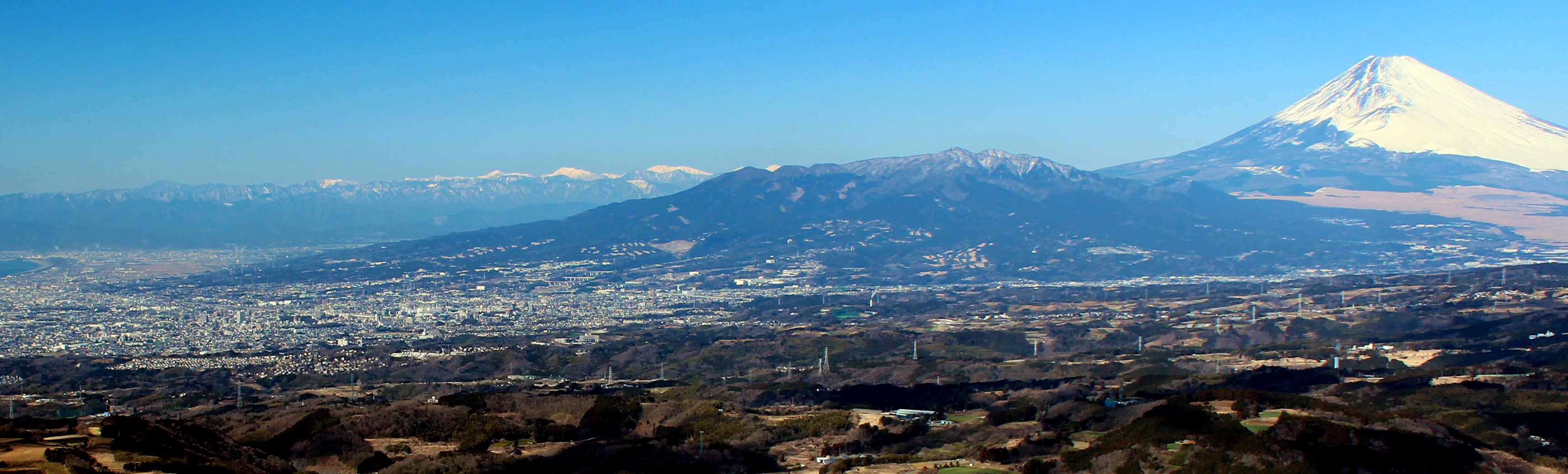 The SE view of Mount Ashitaka with Mount Fuji. Shizuoka prefecture, Honshu, Japan.